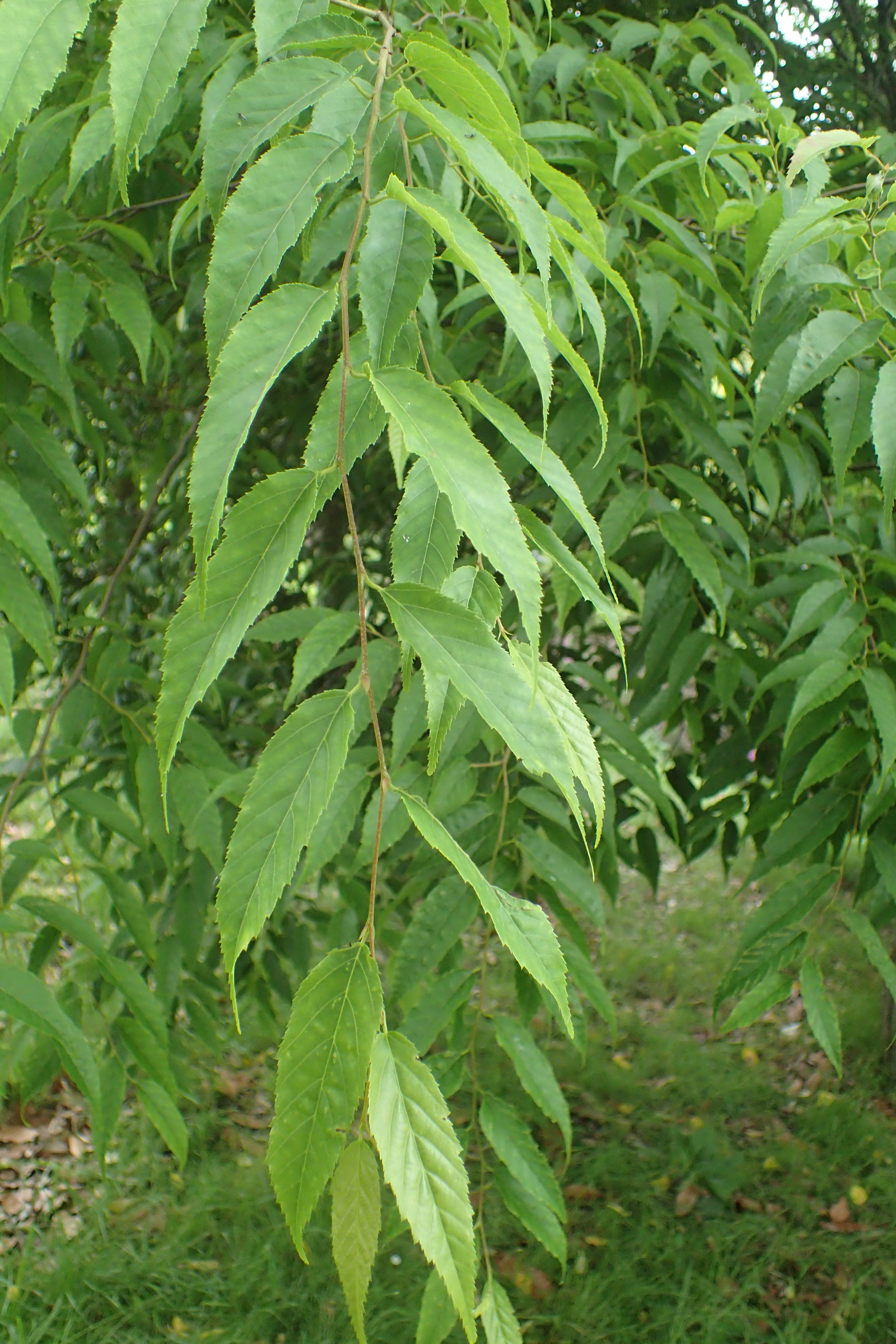 Carpinus londoniana in Hackfalls Arboretum, Hawkes's Bay (NZ)